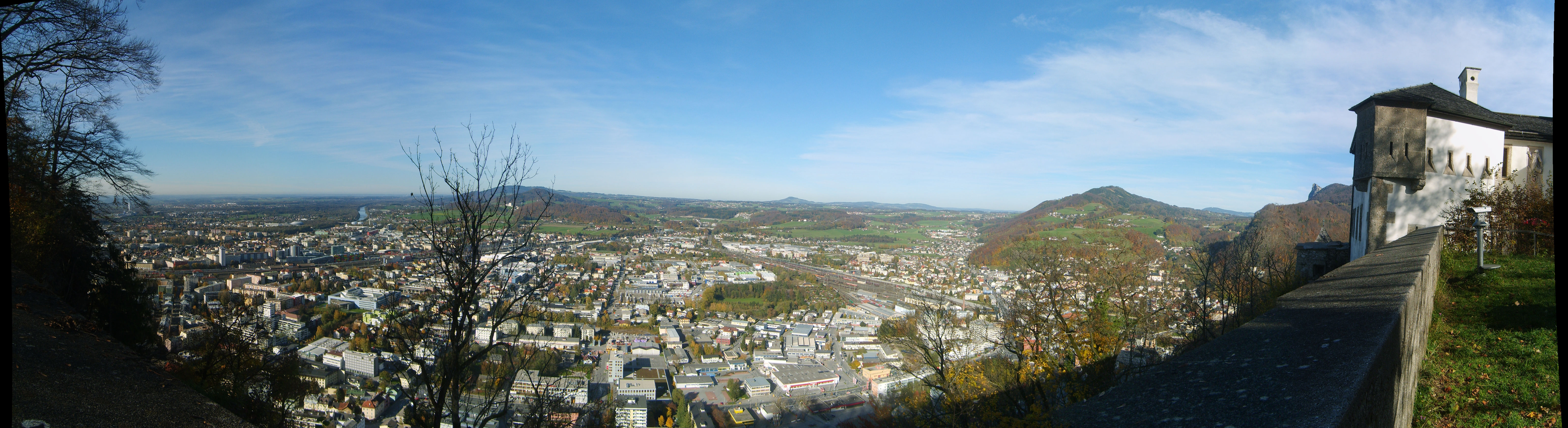 A panorama from the Kapuzinerberg, Salzburg, Austria.